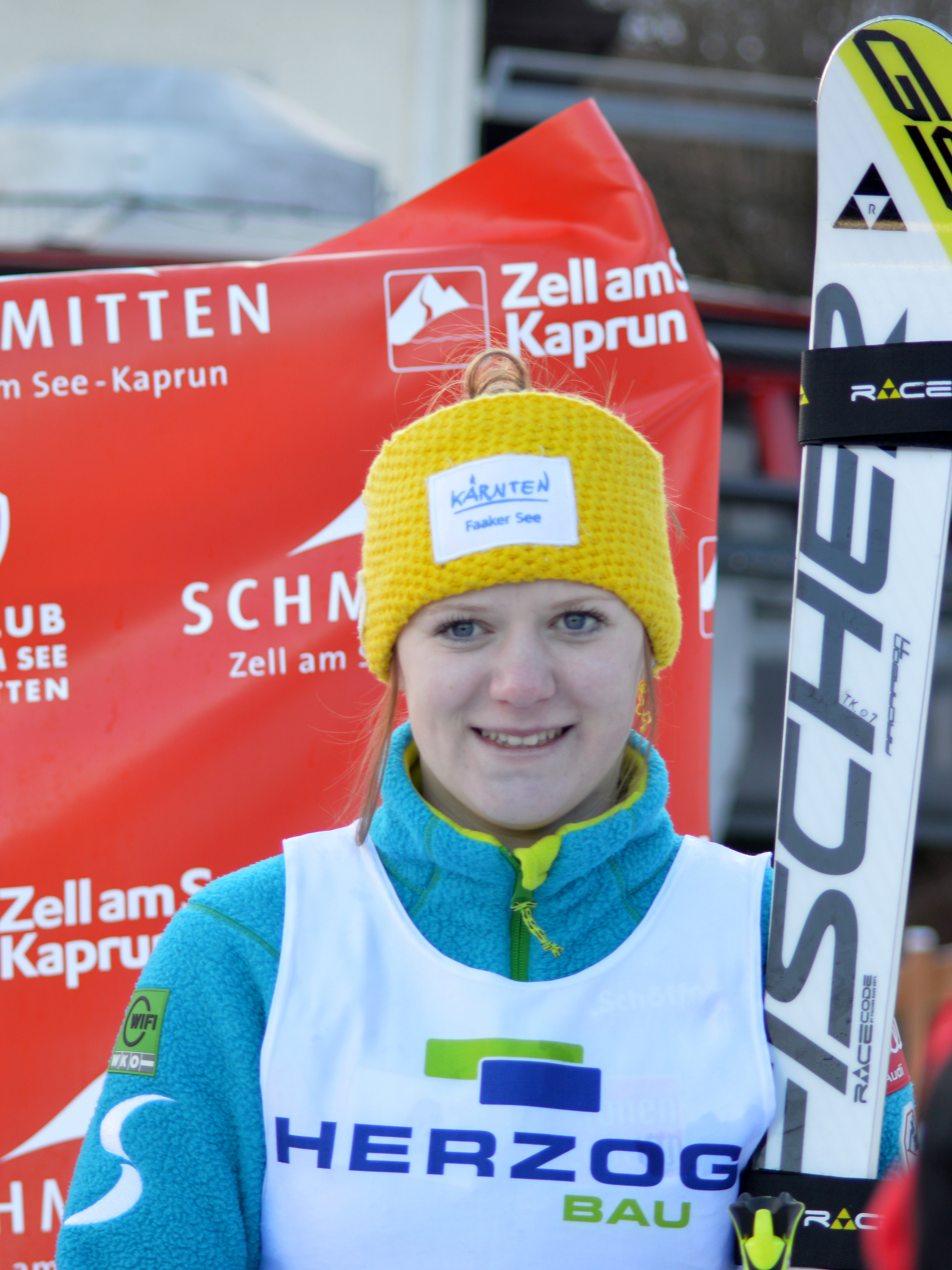 Katharina Truppe at the presentation ceremony after the EC-Giant Slalom in Zell am See, 22nd January 2015, which she finished ranking fifth. Katharina Truppe is an alpine skier from Carinthia, Austria. Born in 1996 and starting for Askö ESV St. Veit/Glan (Carinthia) she is member of the national Austrian alpine skiing B-squad. Her special disciplines are slalom and giant slalom. She has already reached many top-ten-ranks in FIS and European Cup races.